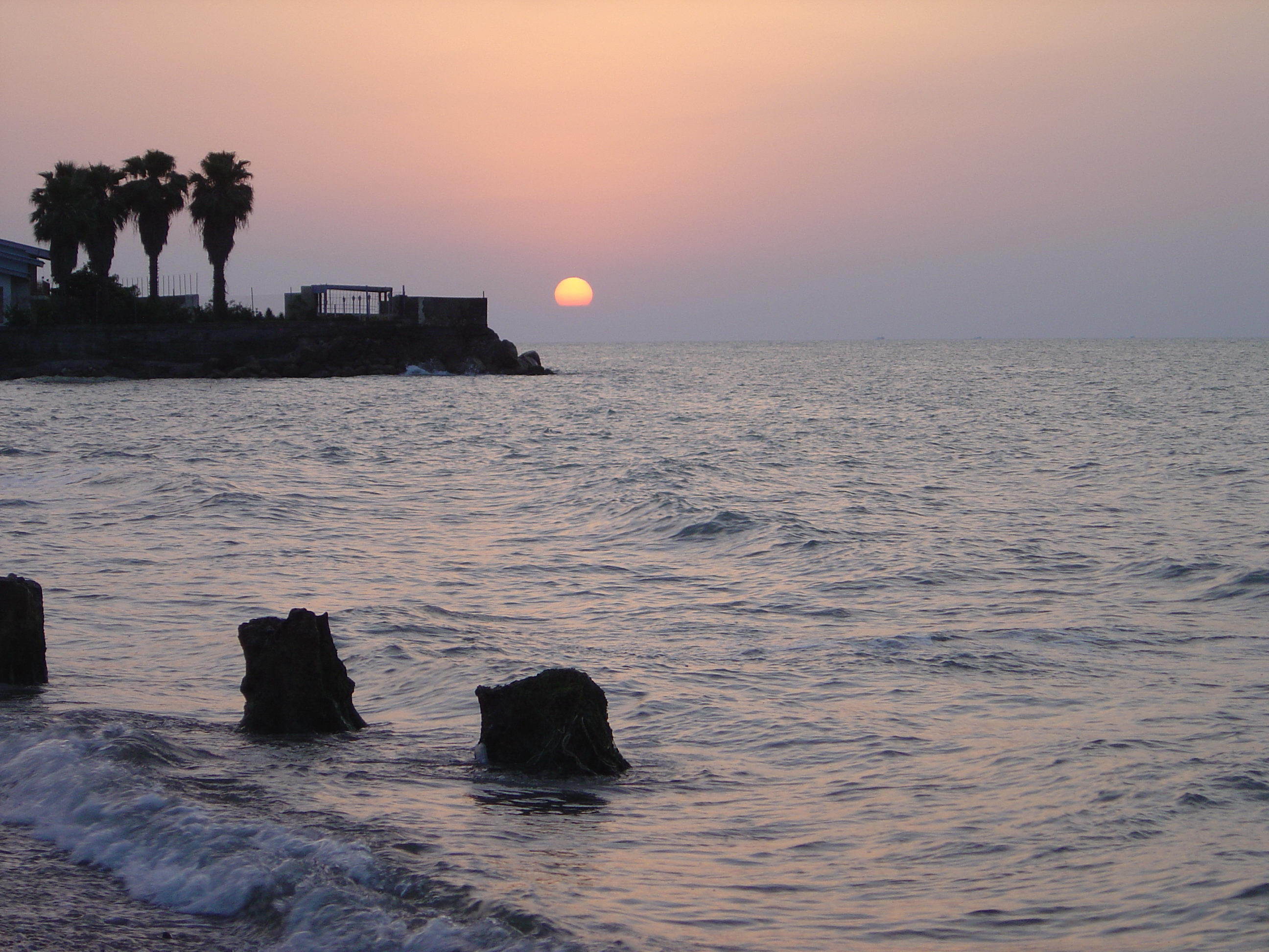 Caspian_see-Iran